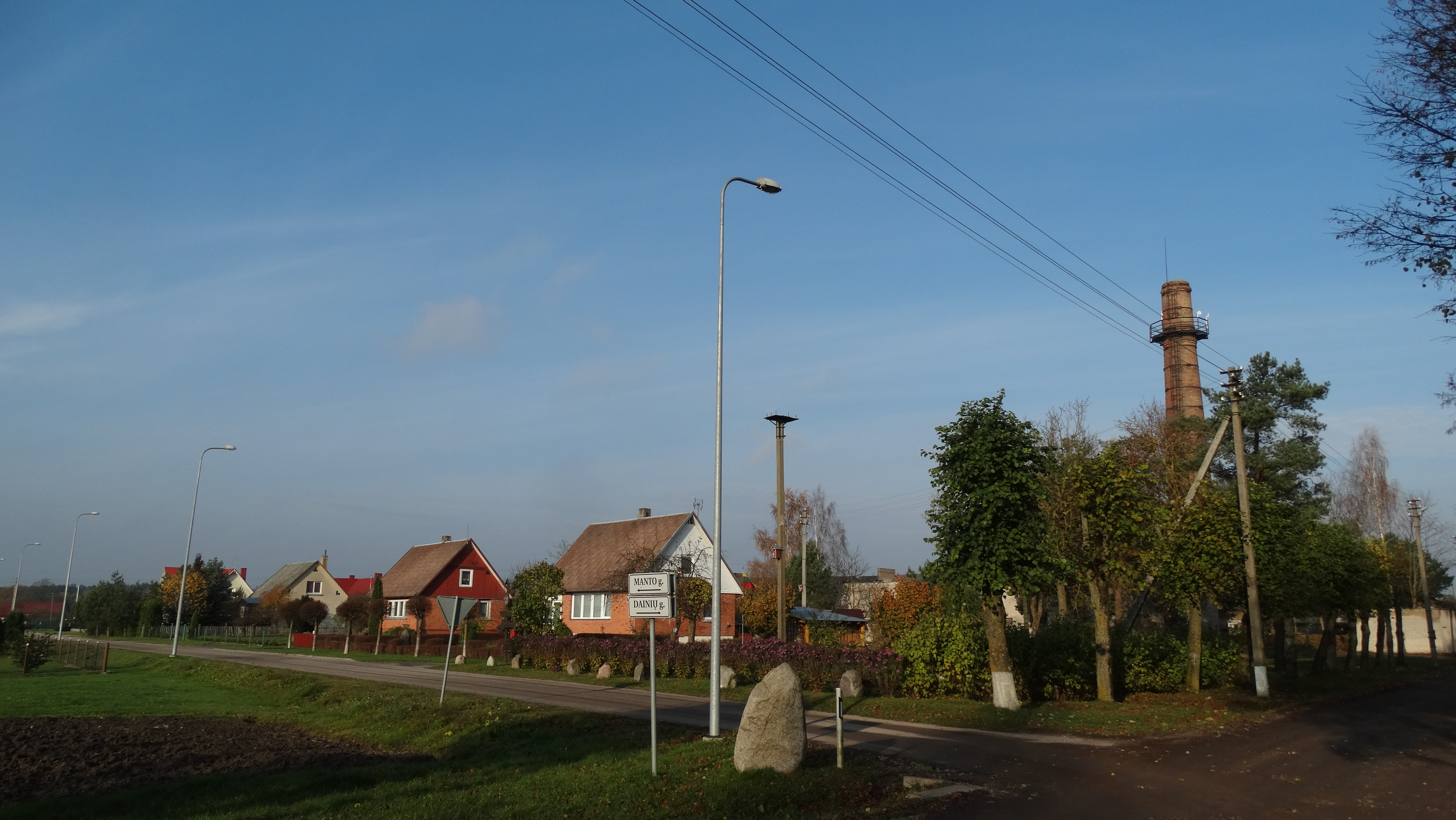 Jurbarkai, Jurbarkas District, Lithuania